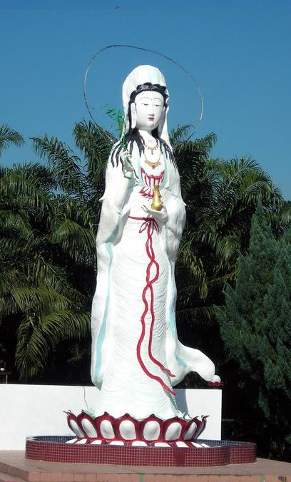 Village